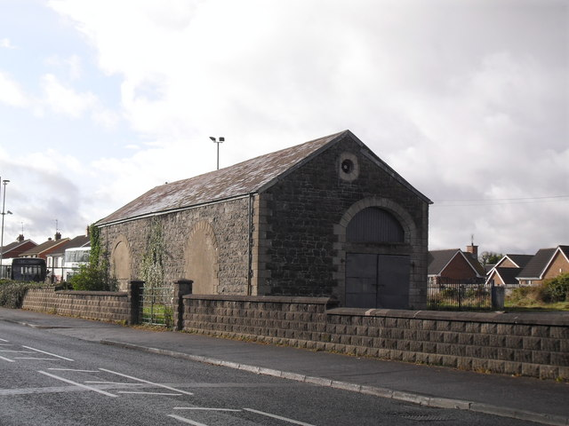 Former goods shed, Ballygowan The goods shed at Ballygowan Station (closed 1950). Ballygowan was once a stop on the Belfast & County Down Railway from Belfast Queen's Quay to Newcastle.